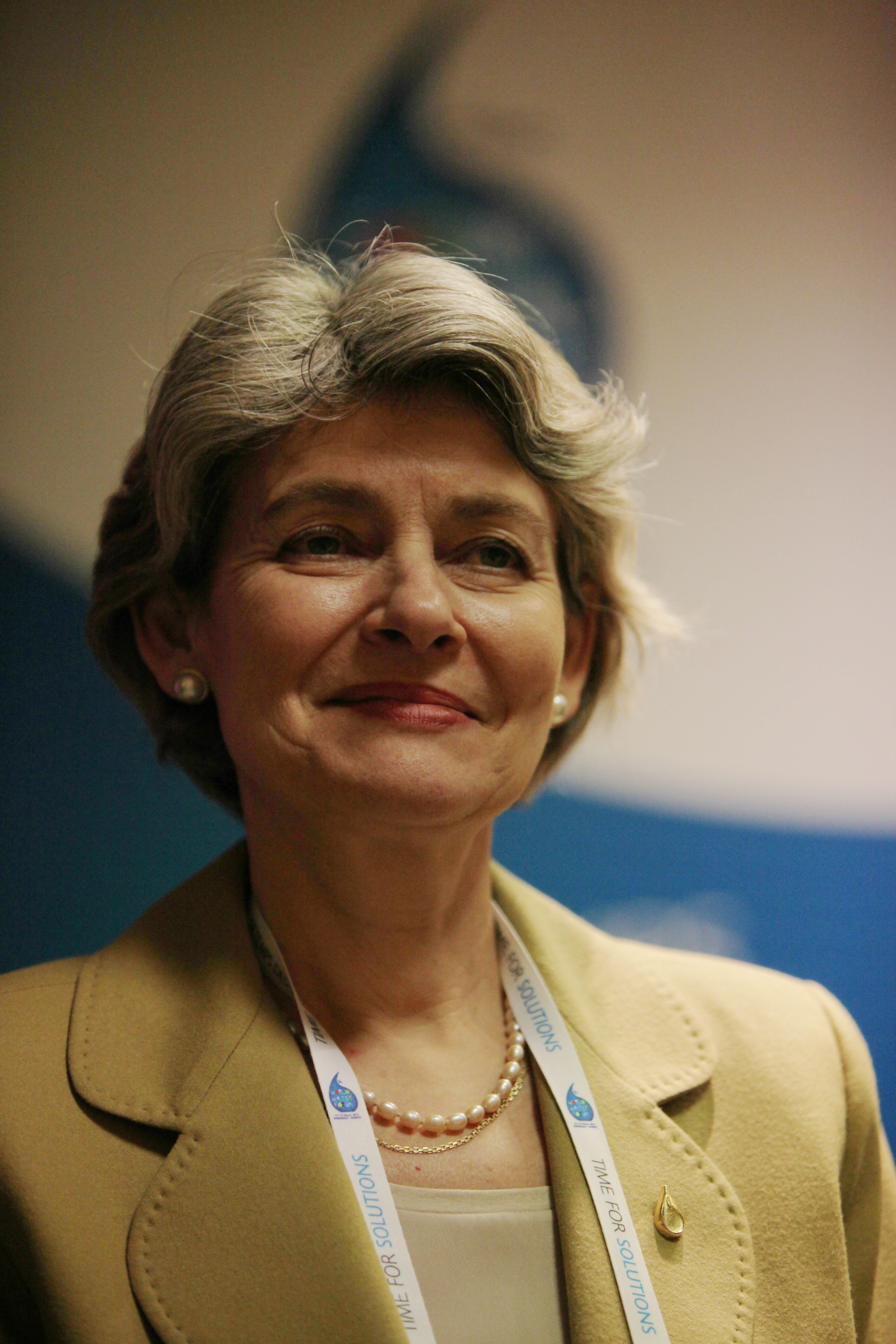 Irina Bokova at the 6th World Water Forum